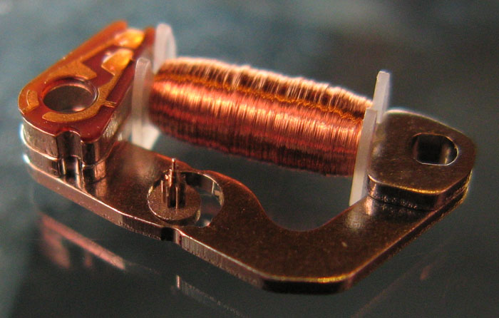 A steppermotor used in electrical clocks to move the indicators, the size is 12mm.